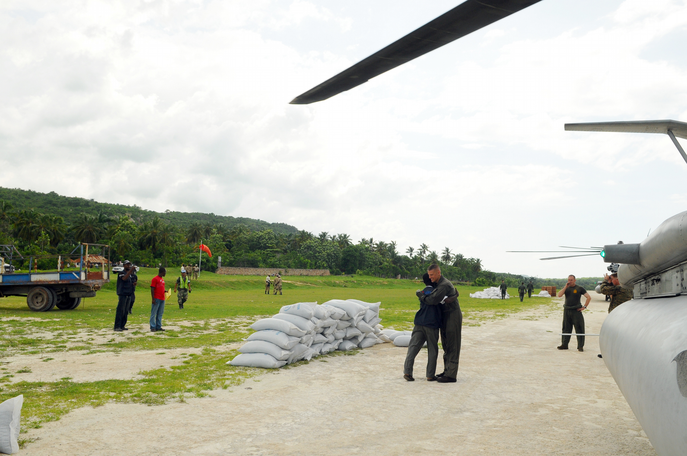 JEREMIE, Haiti (Sept. 09, 2009) A Haitian citizen from Jeremie, Haiti embraces a pilot assigned to Marine Heavy Helicopter Squadron (HMH) 464, the "Condors" embarked aboard the amphibious assault ship USS Kearsarge (LHD 3), after a delivery of food and supplies to support disaster relief efforts in Haiti. Kearsarge has been diverted from the scheduled Continuing Promise 2008 humanitarian assistance deployment in the western Caribbean to conduct hurricane relief operations. (U.S. Navy photo by Mass Communication Specialist Seaman Apprentice Joshua Adam Nuzzo/Released)